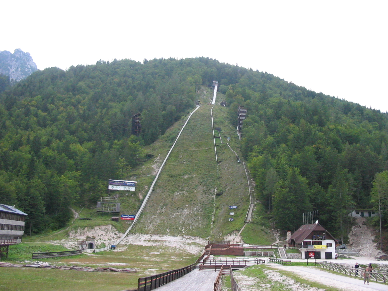 biggest flying hill in the world, Planica, Slovenia